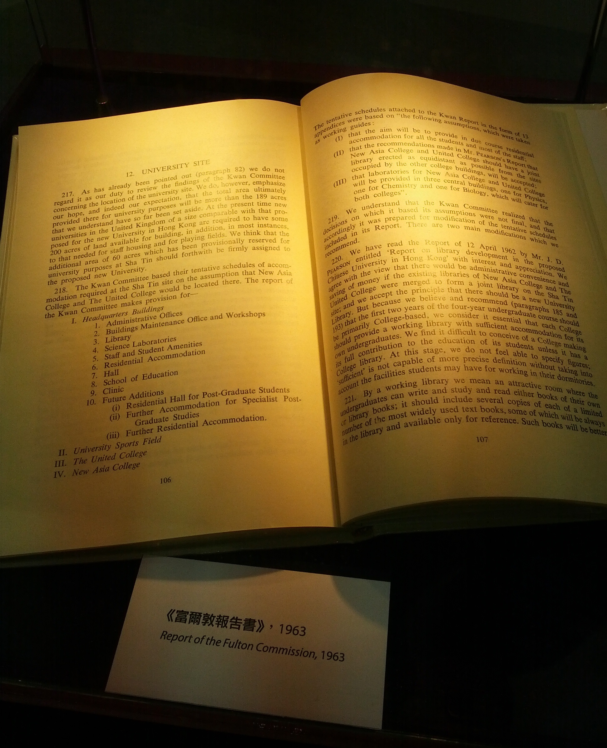 The first Report of the Fulton Commission published in 1963. The Commission, chaired by Lord Fulton, recommends the founding of the Chinese University of Hong Kong by September 1963.